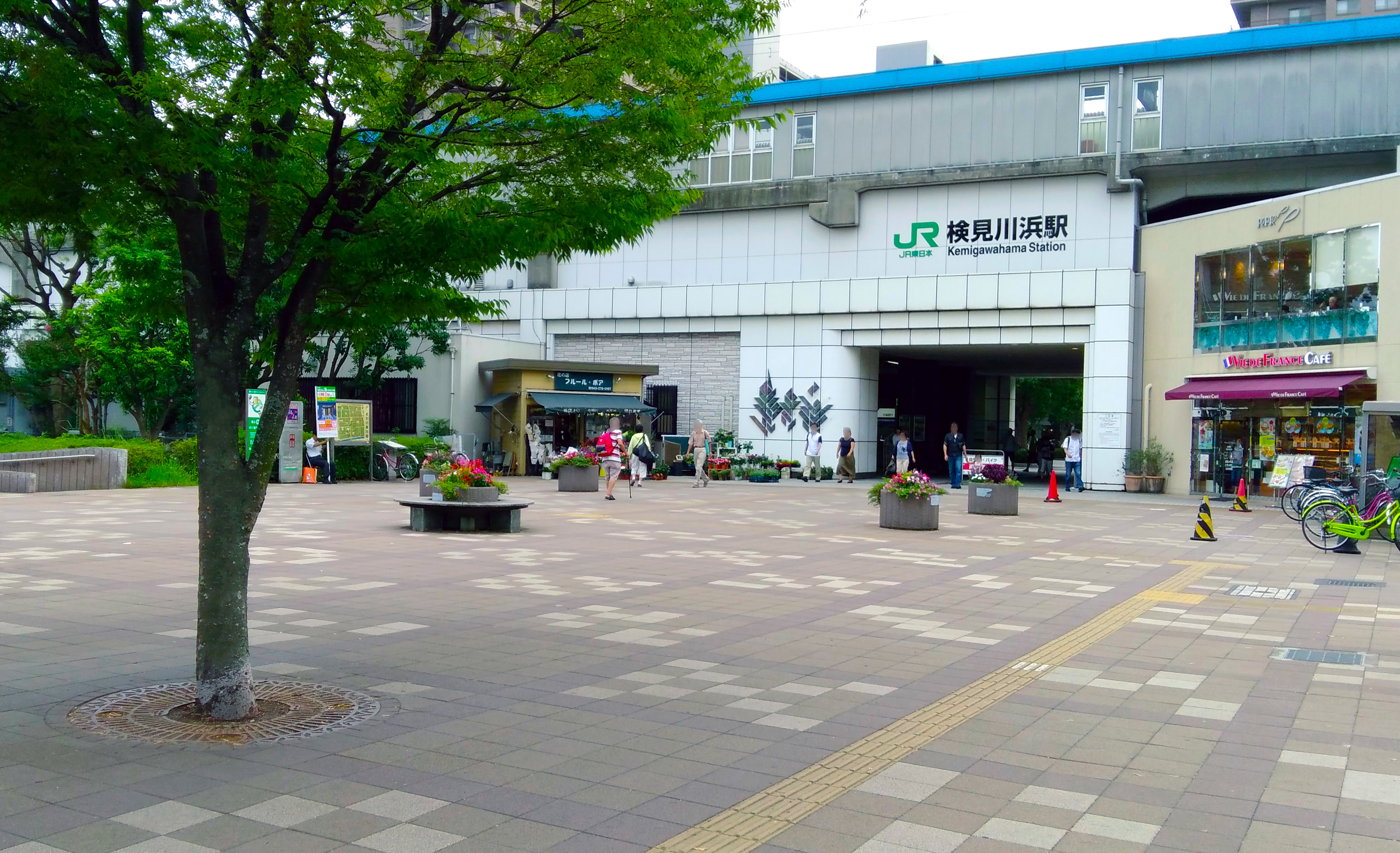 The north side of Kemigawahama Station on the Keiyo Line in Chiba Prefecture, Japan